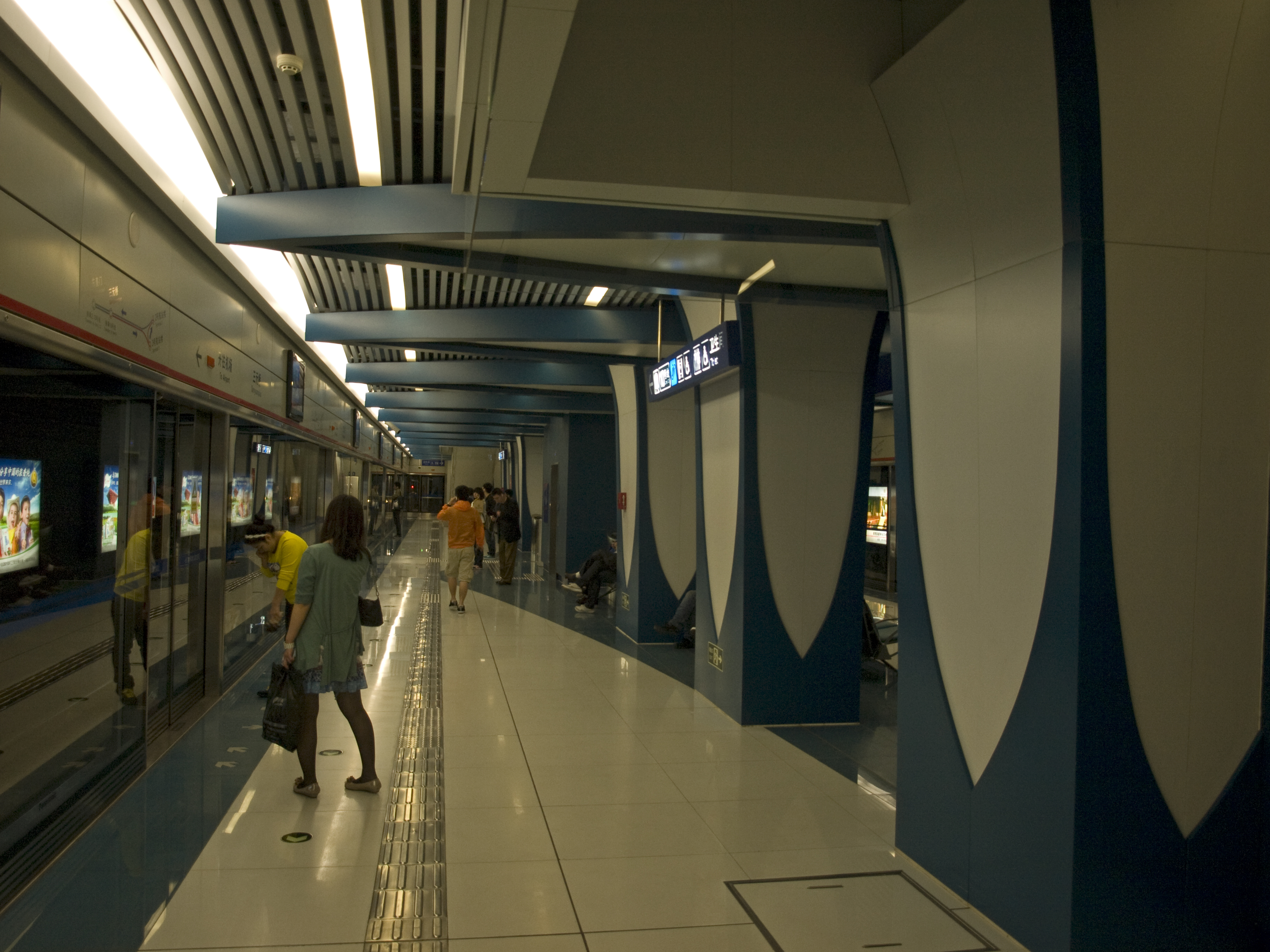 Sanyuanqiao station (Airport line), Beijing Subway